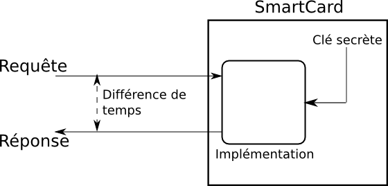 Principle of the timing attack